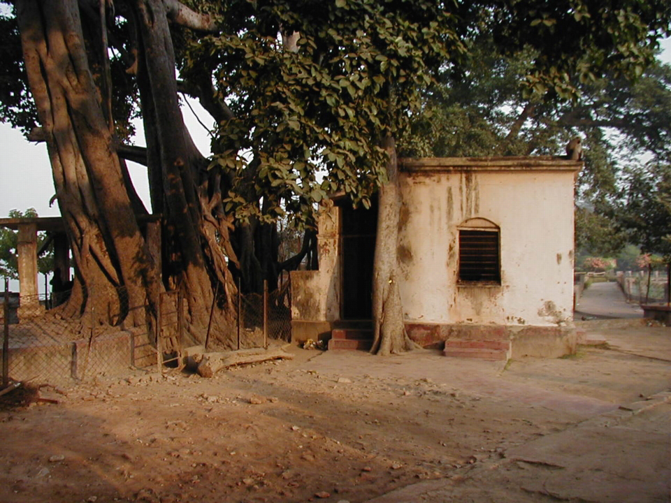 The panchavati hut where Ramakrishna practiced his spiritual practices